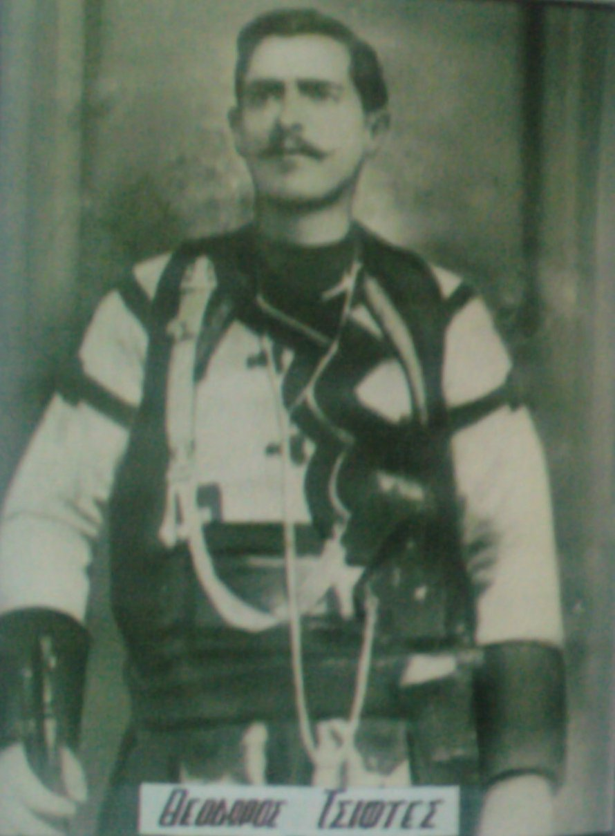 Portrait of "Chifteto", the killer of Apostol Petkov